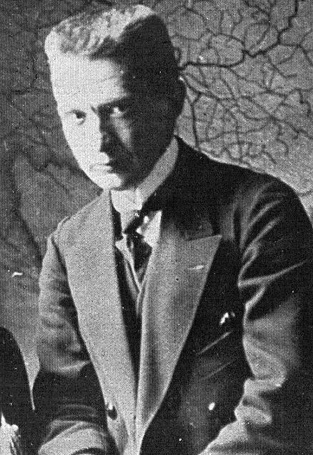 Alexander Kerensky, second prime minister of the Russian Provisional Government.